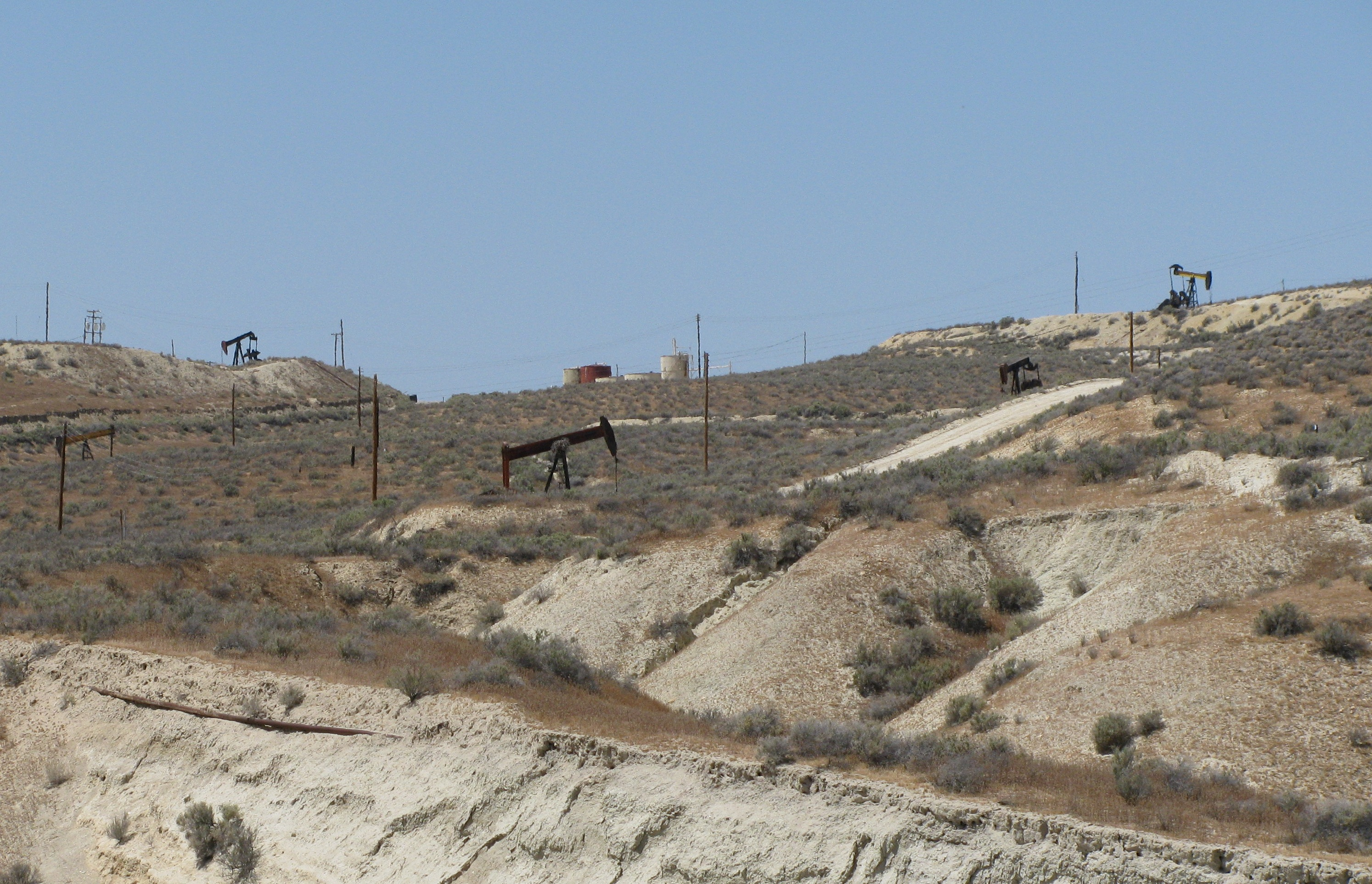 Oil wells on the McKittrick Field (or immediately adjacent)